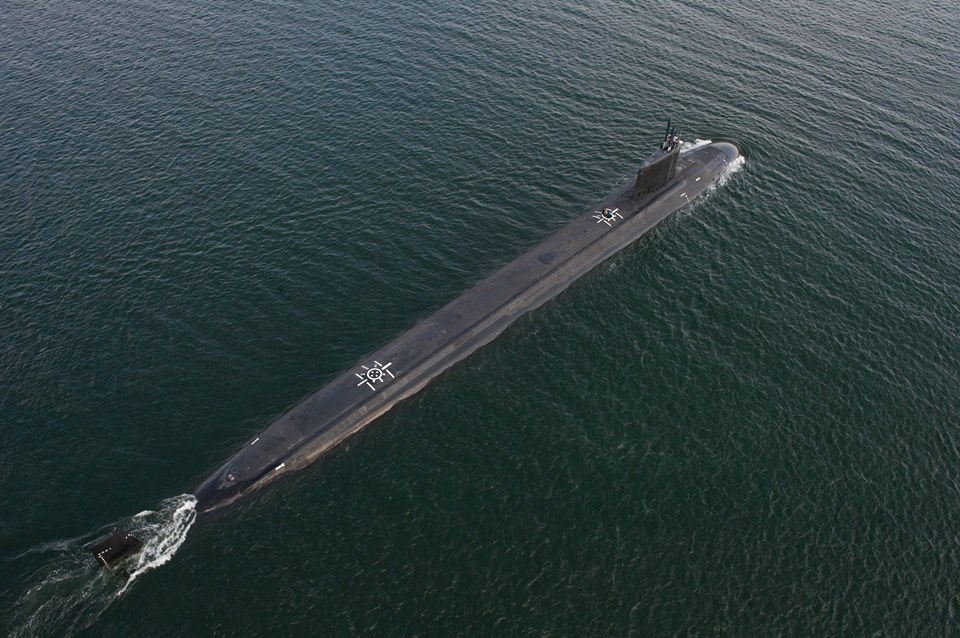 The U.S. Navy submarine USS North Dakota (SSN-784) underway during bravo sea trials in the Atlantic Ocean. It is the 11th ship of the Virginia class, the first U.S. Navy combatants designed for the post-Cold War era.